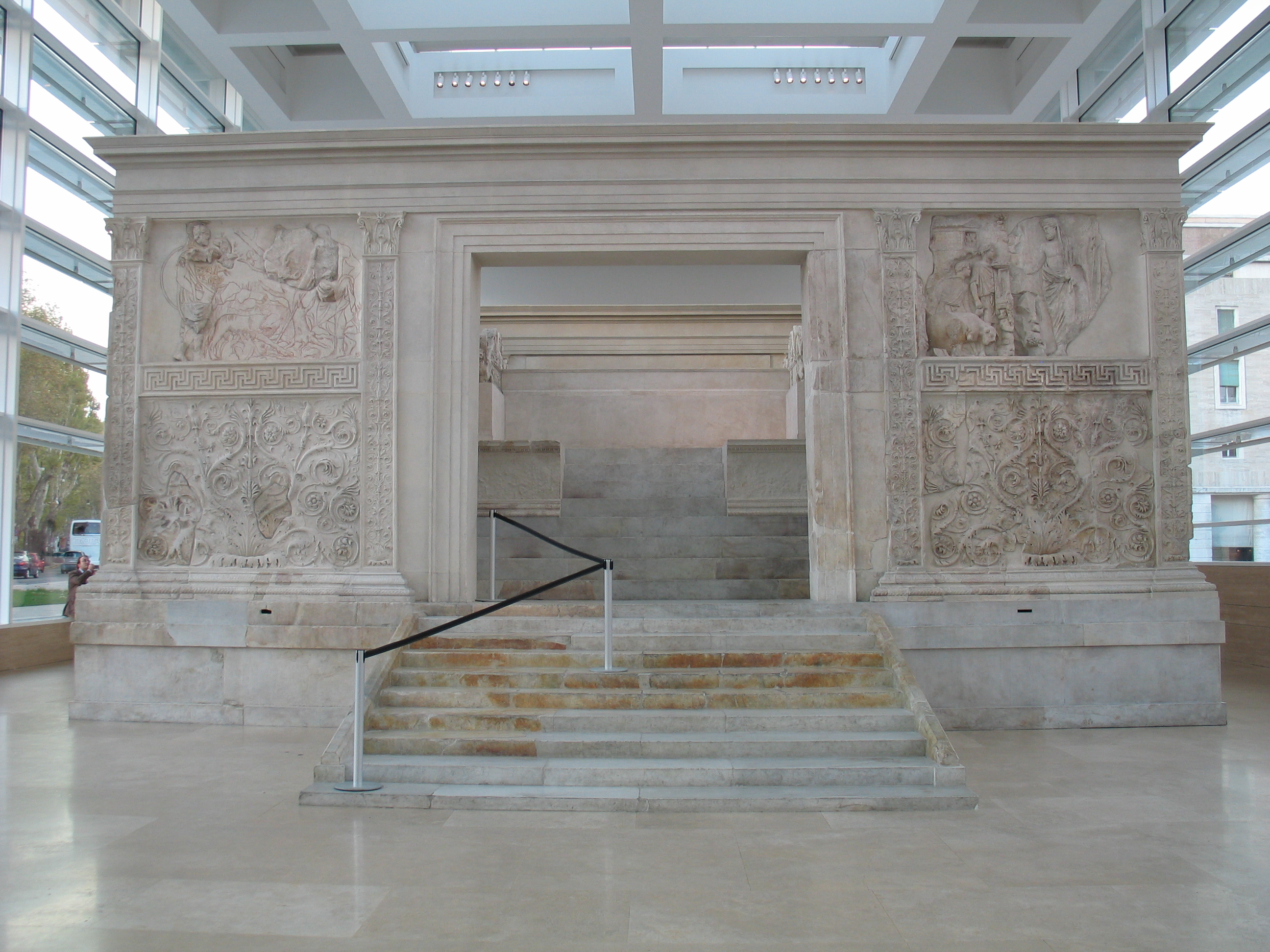 Full frontal view of Ara Pacis, with the entrance to the altar itself